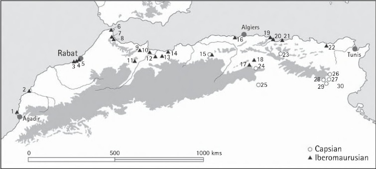 1 Cap Rhir; 2 El Khenzira; 3 Contrebandiers; 4 El Harhoura II; 5 Dar es-Soltan I; 6 Ghar Cahal; 7 Kehf El Hammar; 8 Hattab II; 9 Ifri El Baroud; 10 Ifri n'Ammar; 11 Kifan Bel Ghomari; 12 Taforalt; 13 Le Mouillah; 14 Rachgoun; 15 Columnata; 16 Rassel; 17 El Hammel; 18 El-Onçor; 19 Afalou; 20 Tamar Hat; 21 Taza; 22 Ouchtata; 23 Medjez II; 24 Dakhlat es-Saâdane; 25 Aïn Naga; 26 Khanguet El-Mouhaâd; 27 Aïn Misteheyia; 28 Relilaï; 29 Kef Zoura D; 30 ElMekta.